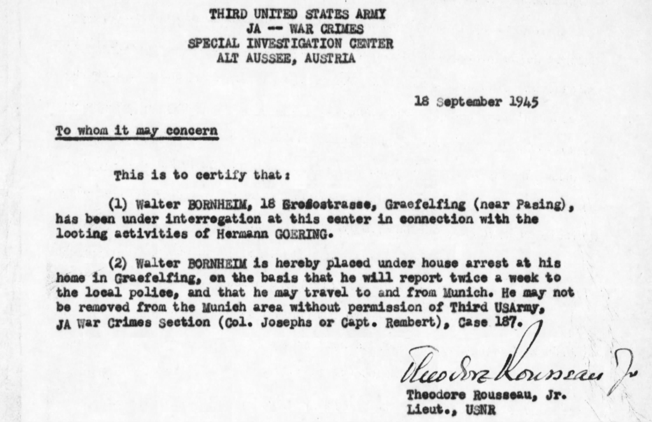 Walter Bornheim: note concerning Bronheim's arrest and interrogation in connection with "the looting activities of Hermann Goering". Publication Number: M1944 Record Group: 239 Source Publication Year: 2007 Roll: 0084 National Archives Catalog ID: 1537311 National Archives Catalog Title: Subject Files, compiled 1944 - 1946, documenting the period 1940 - 1946 Series: Subject File Category: Bornheim, Walter